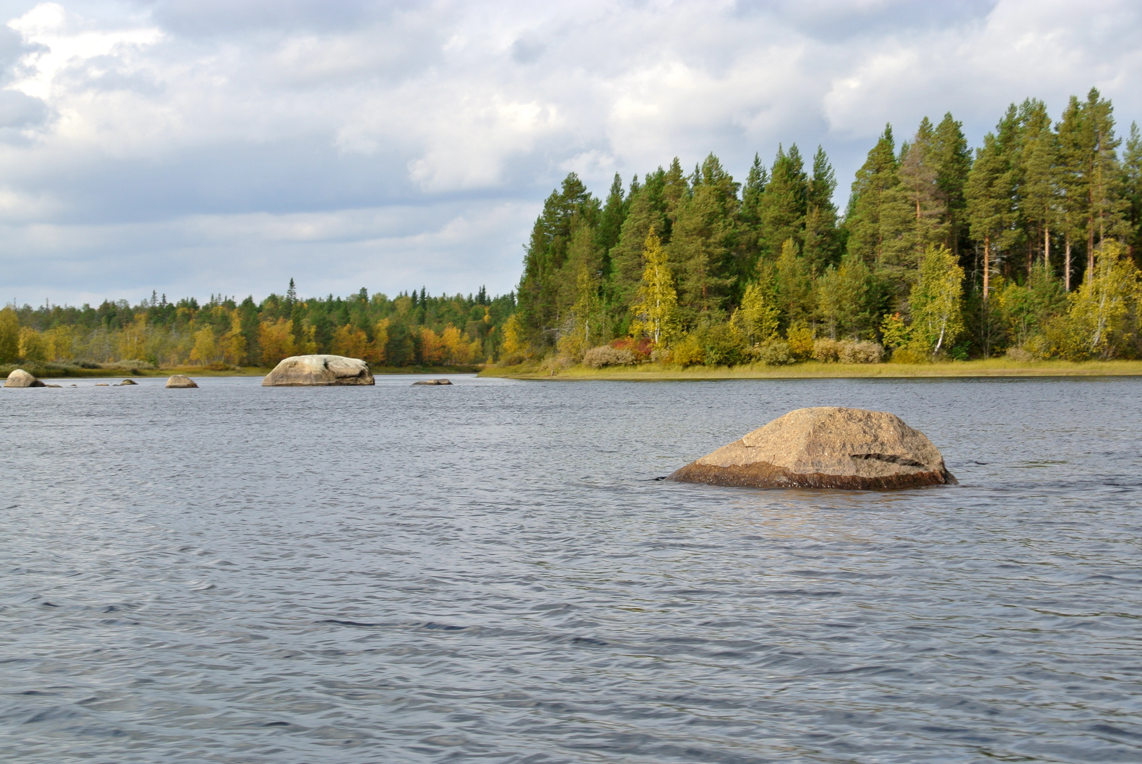 Yushkozero lake